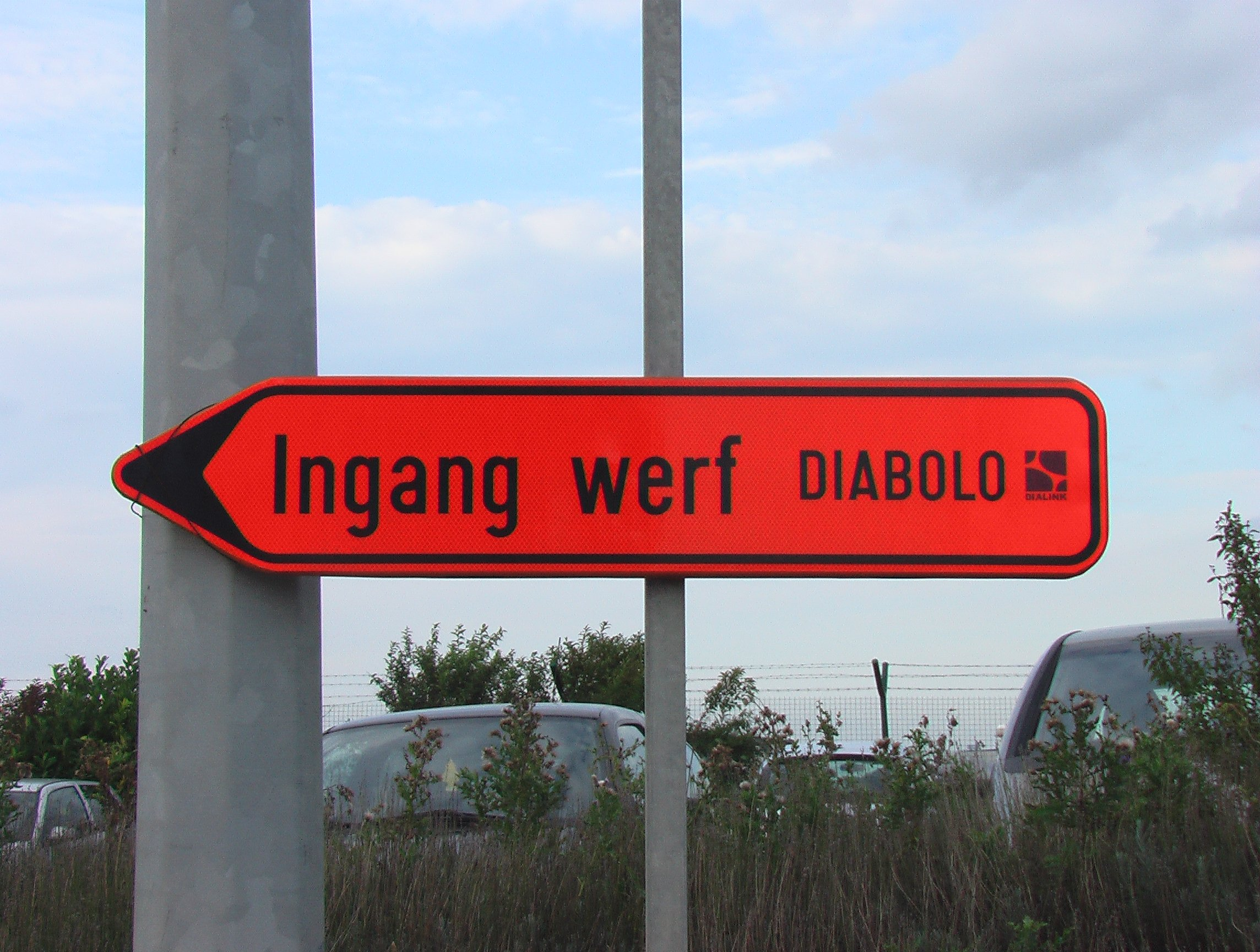 Road sign for the Diabolo project construction site